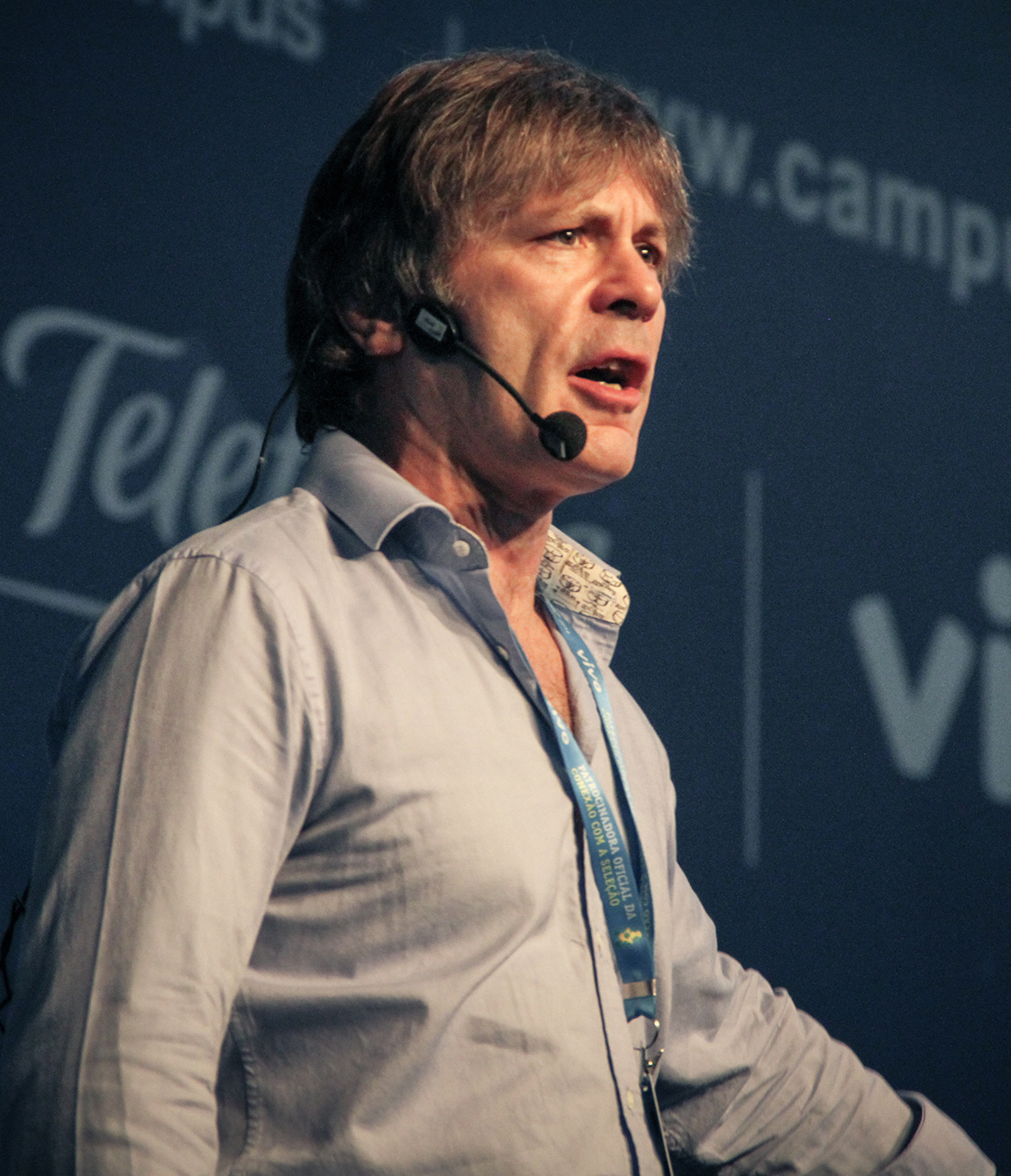 Bruce Dickinson at Campus Party